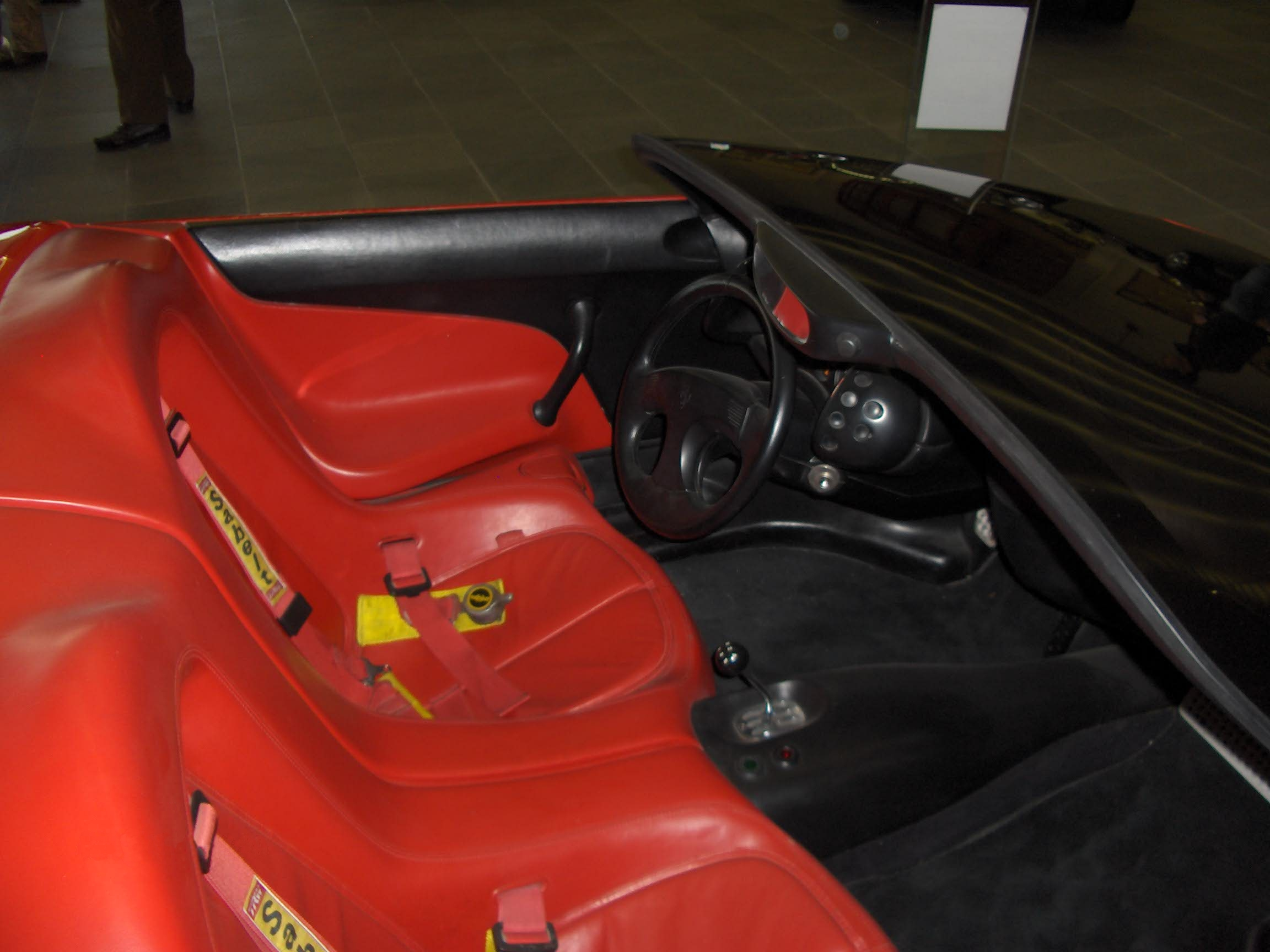 Ferrari Mithos